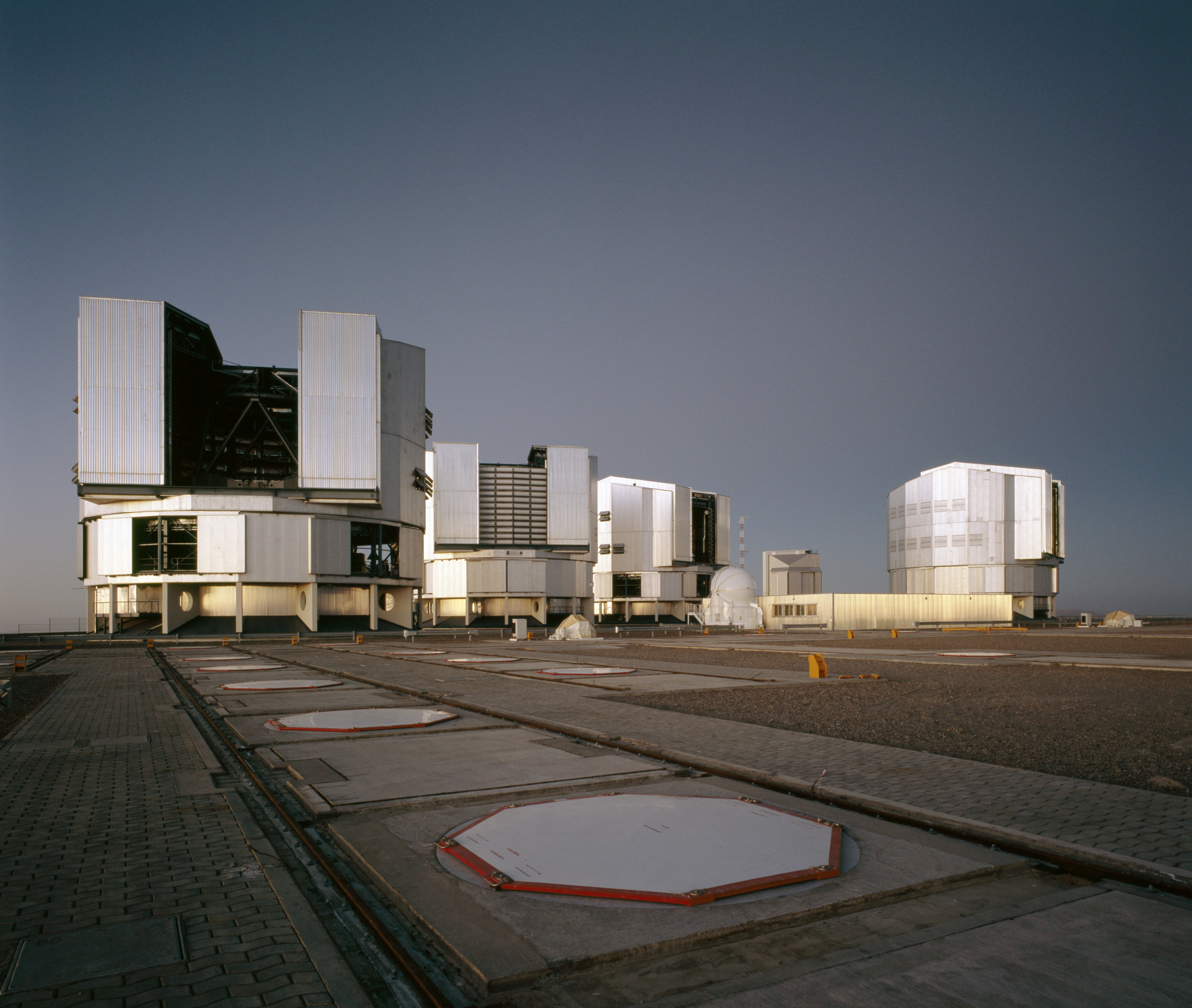 The VLT platform on Paranal just after sunset. The four 8.2m Unit Telescopes are ready for the night.